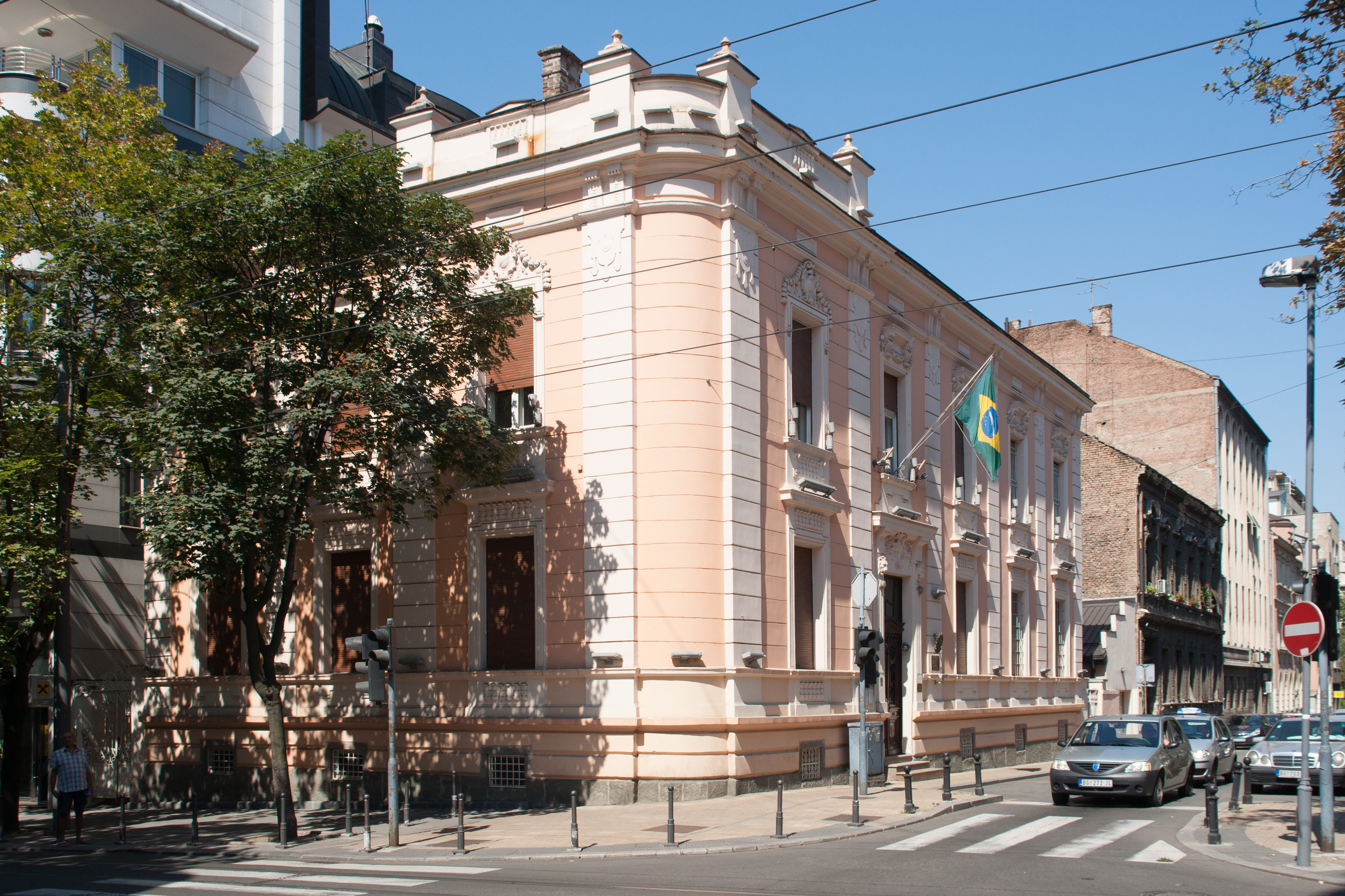 Brasil embassy - Belgrade.